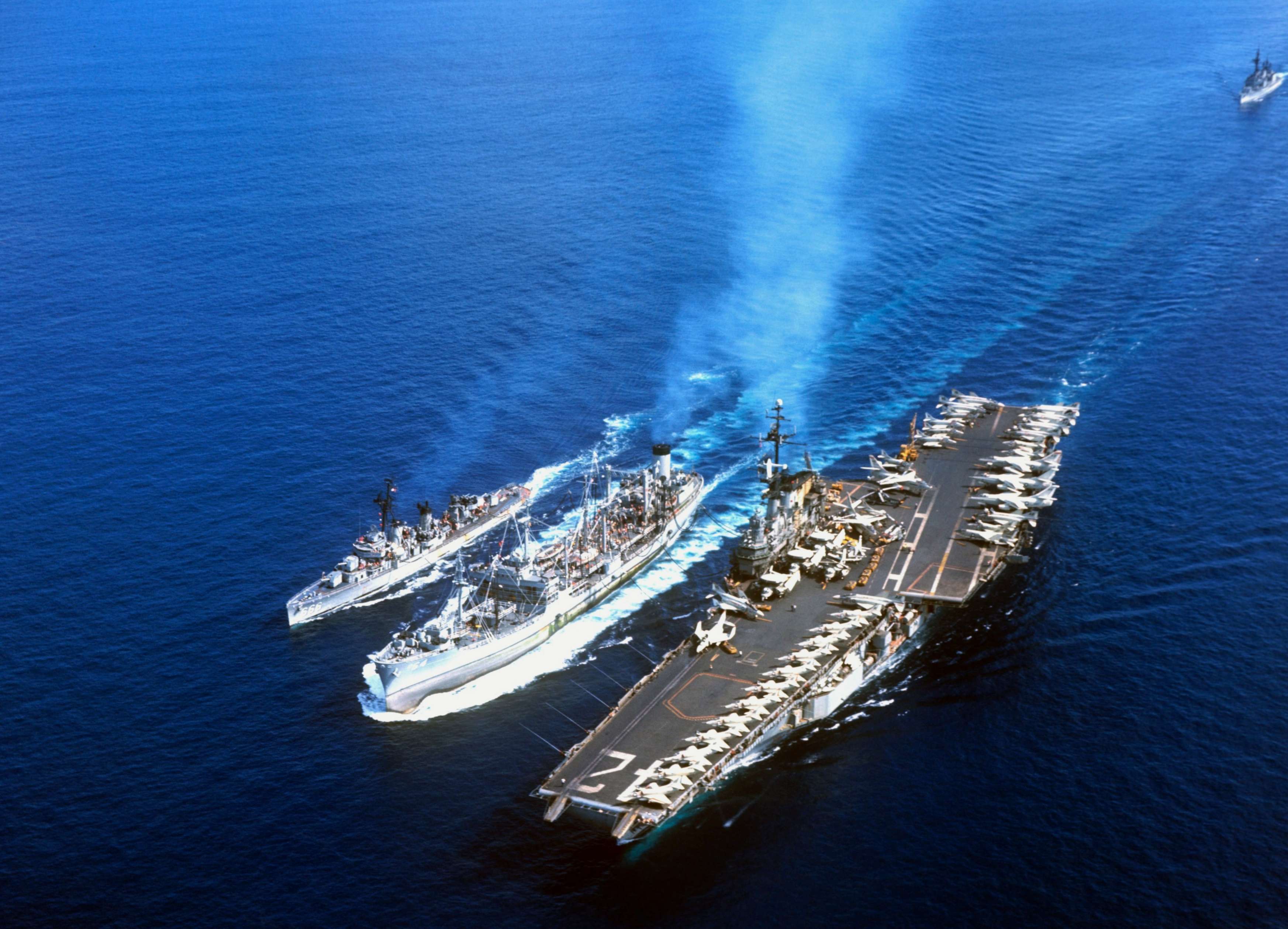 The U.S. Navy fleet oiler USS Tolovana (AO-64) refueling the the aircraft carrier USS Franklin D. Roosevelt (CVA-42) and the destroyer USS Black (DD-666) in the Gulf of Tonkin, 12 September 1966, during that carrier's deployment to Vietnam from 21 June 1966 to 21 February 1967.